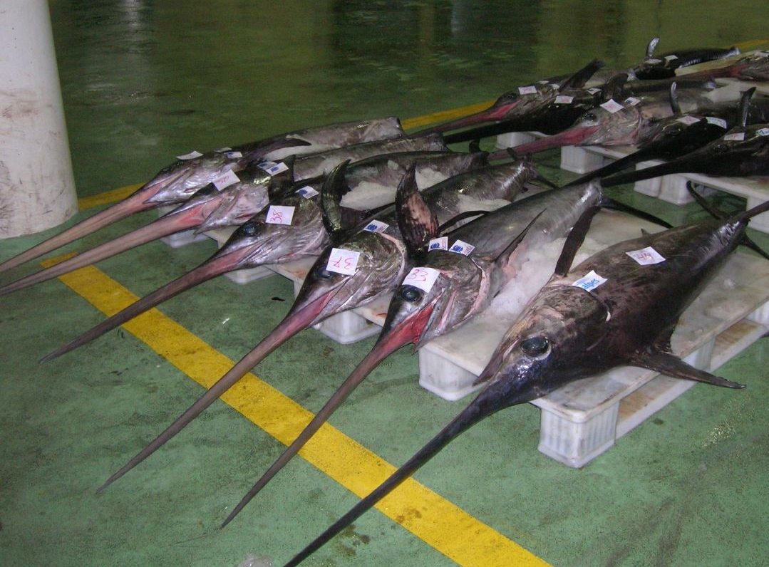 Swordfish auction in the fish market of Vigo, Spain.